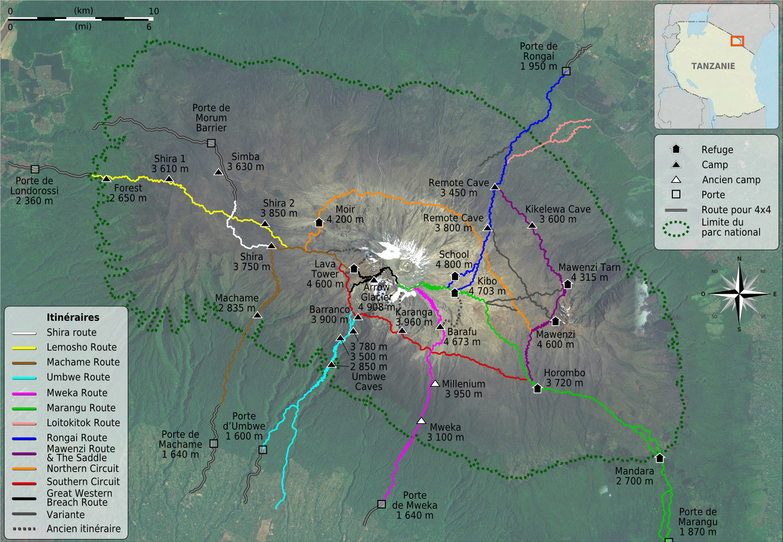 Map of the climbing routes and huts around the Mount Kilimanjaro. French version.